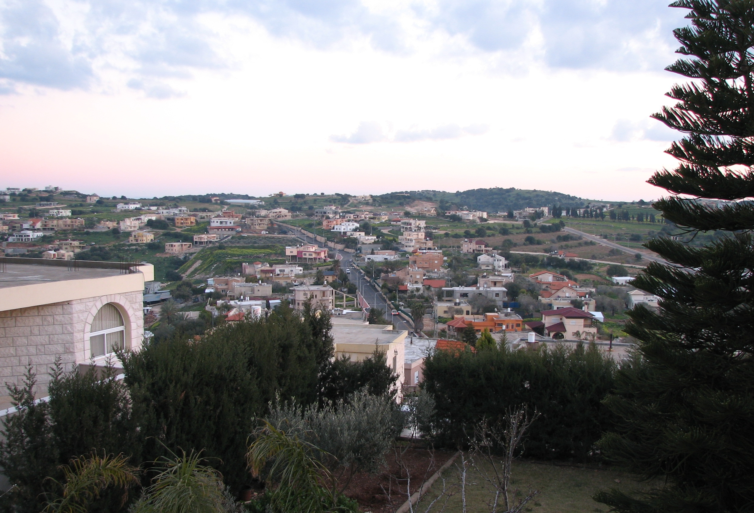 View of Isfaya.